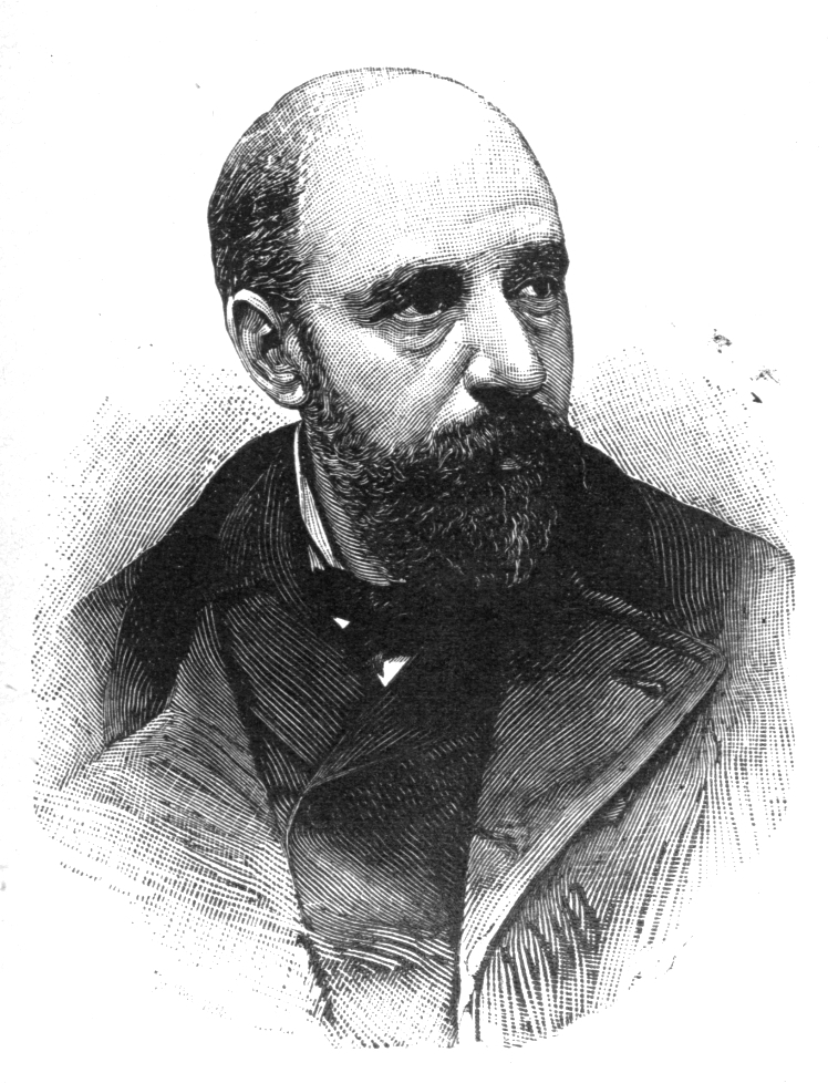 Valentin Magnan (1835-1916)